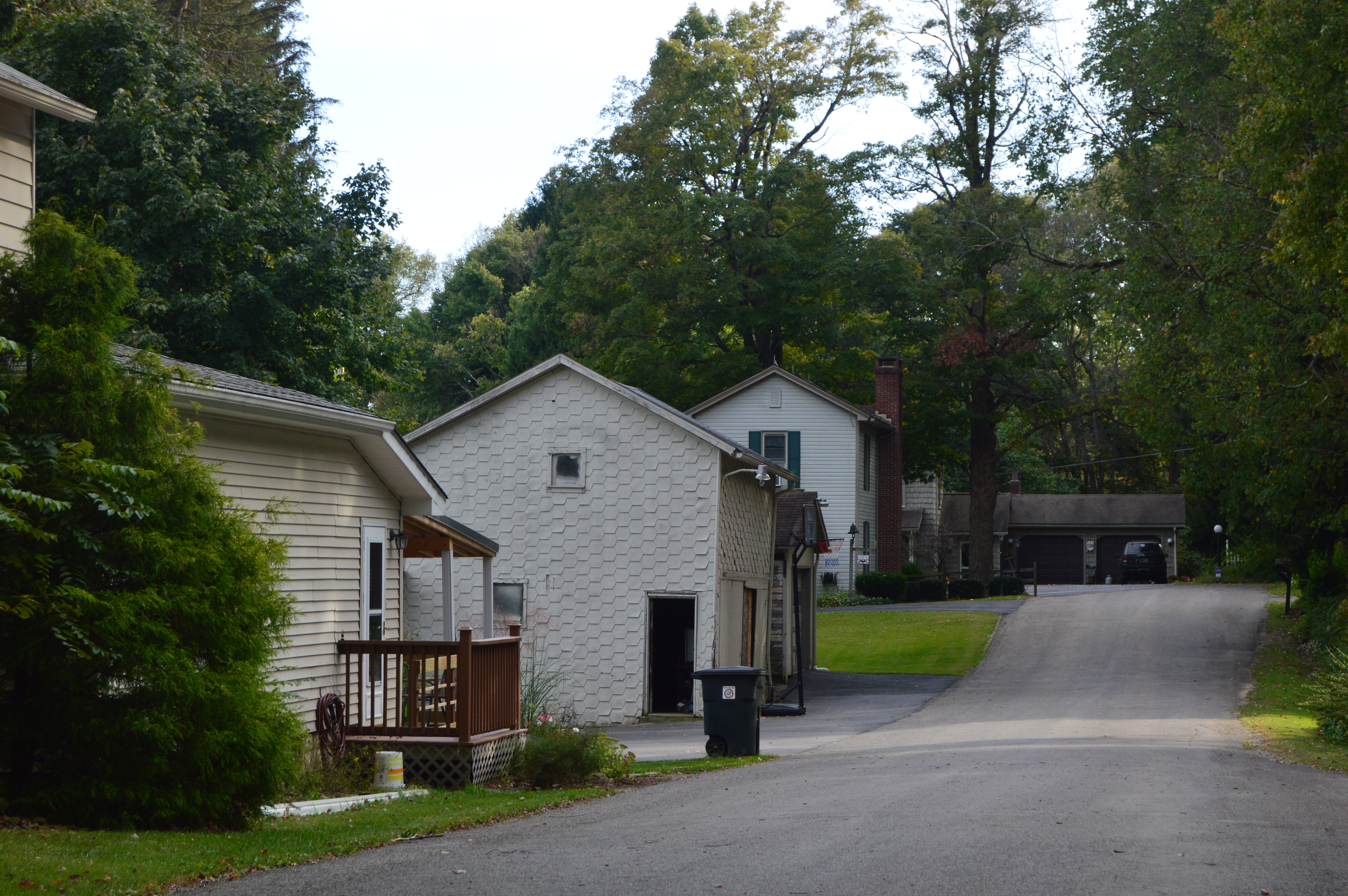 Houses on Sherman Street at Shenango in West Salem Township, Mercer County, Pennsylvania, United States.